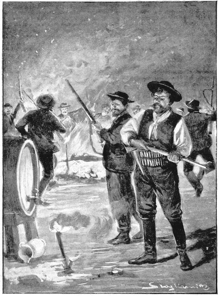 Maremma brigants